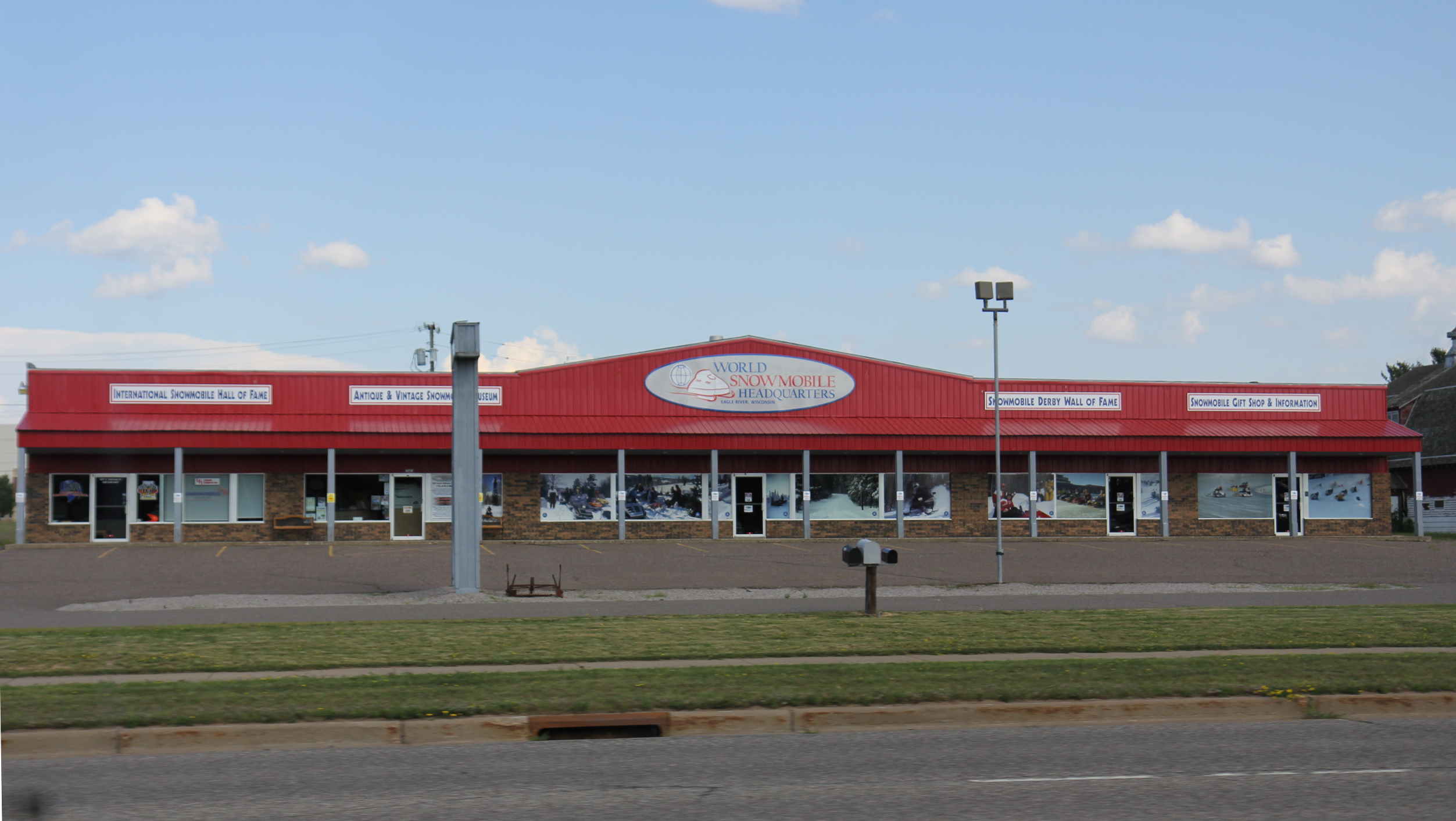 The "World Snowmobile Headquarters" building at Eagle River, Wisconsin. The building hosts the International Snowmobile Hall of Fame, an antique snowmobile museum, Snowmobile Derby Hall of Fame, and a gift shop.